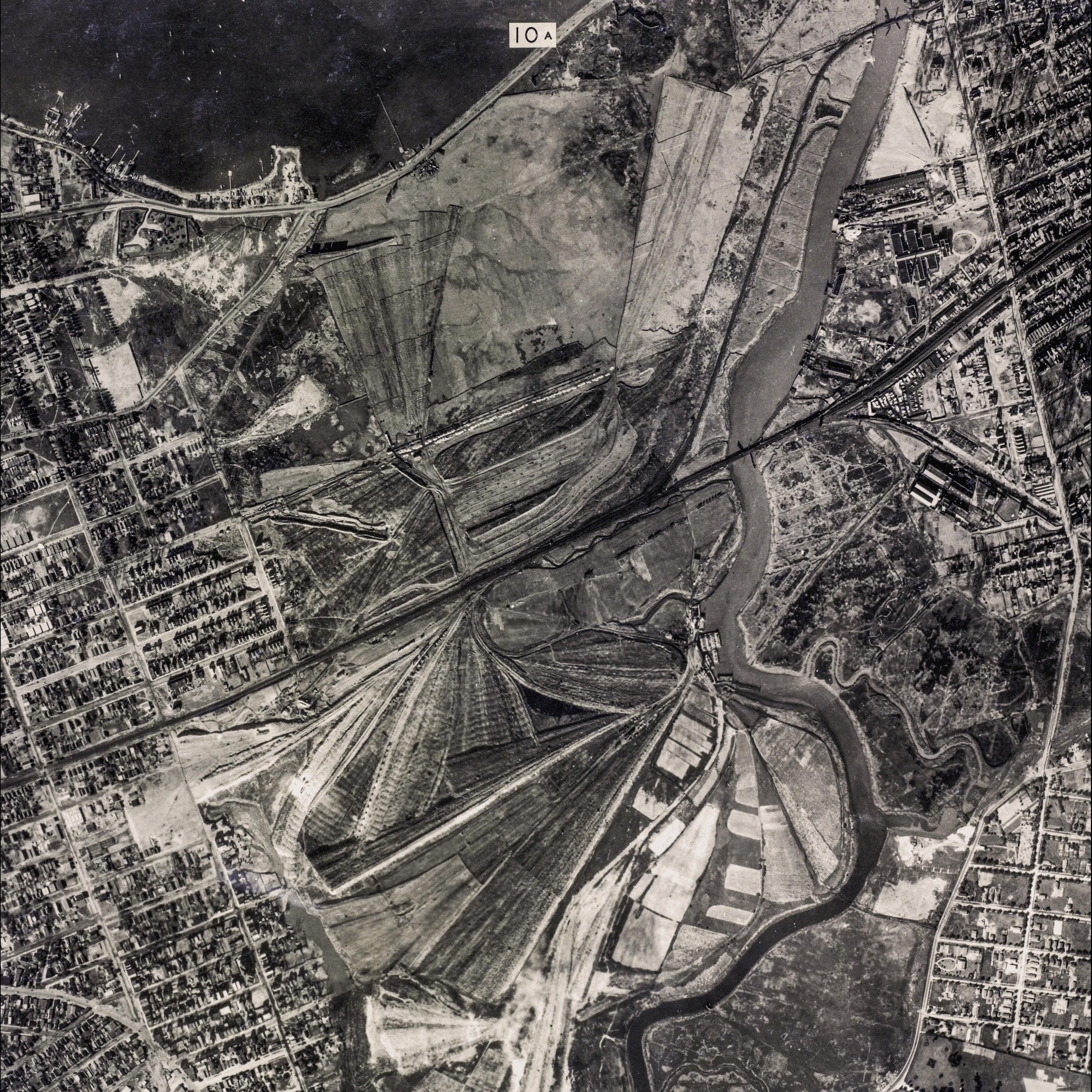 The 'valley of ashes' made famous in the novel The Great Gatsby.